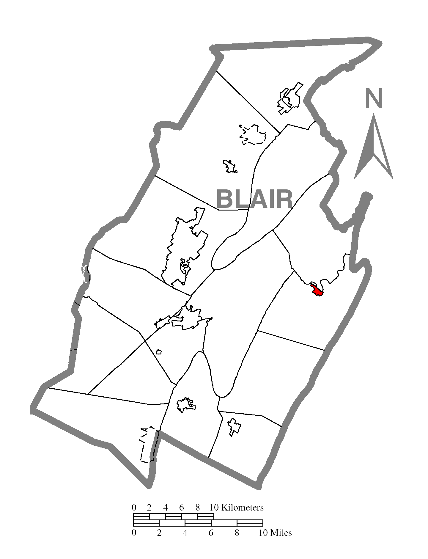 A map of Blair County showing Williamsburg, Pennsylvania (alternate) highlighted on the map.